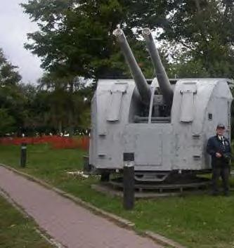 HMCS Huron X Guns, Royal Military College of Canada